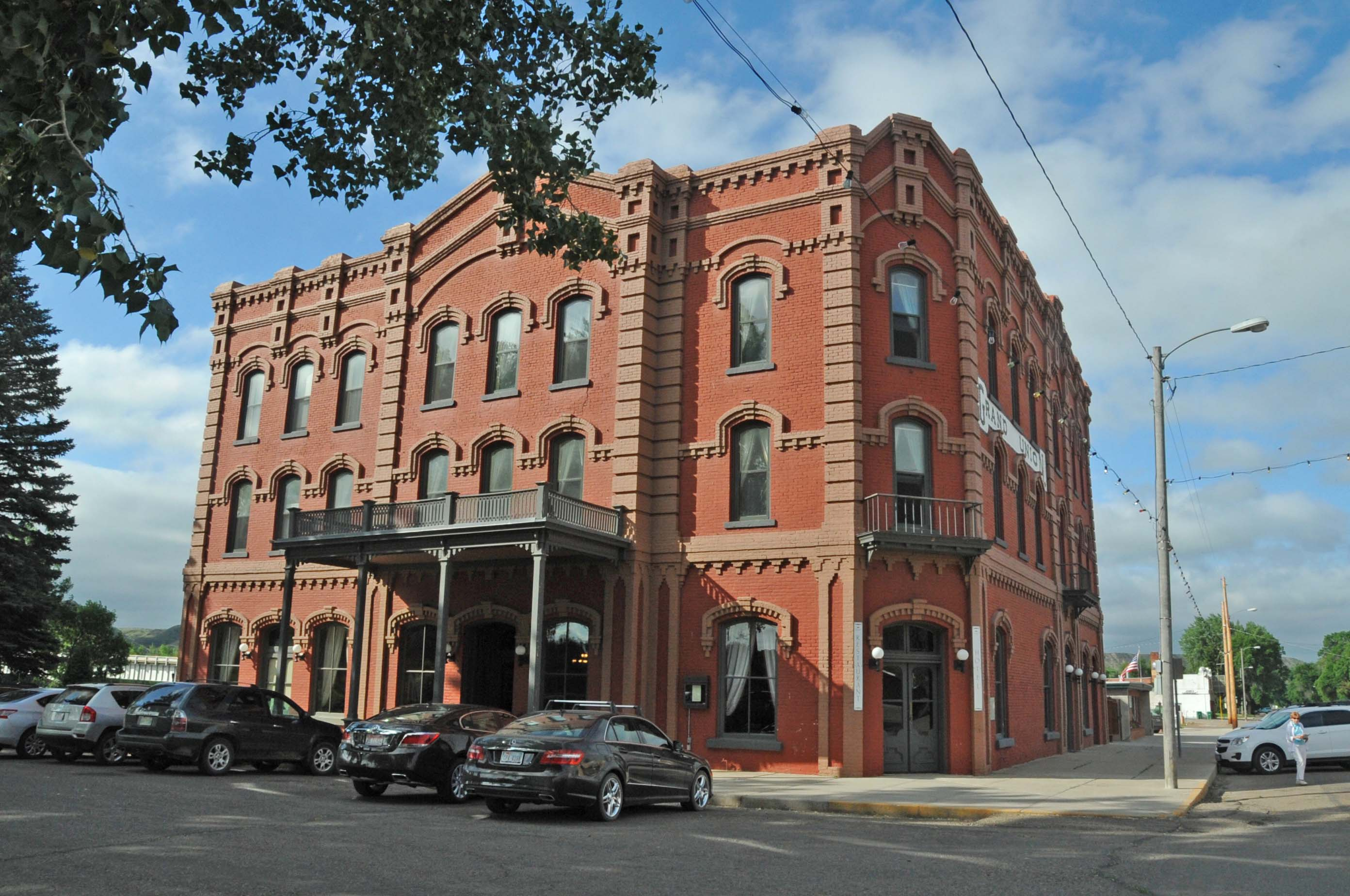 OPENED IN 1882 AND IS ONE OF THE OLDEST HOTELS IN MONTANA; SITUATED RIGHT ON THE MISSOURI RIVER IT WAS A RIVER STOP AND A STAGE STOP AND OFFERED LUXURY ACCOMODATIONS